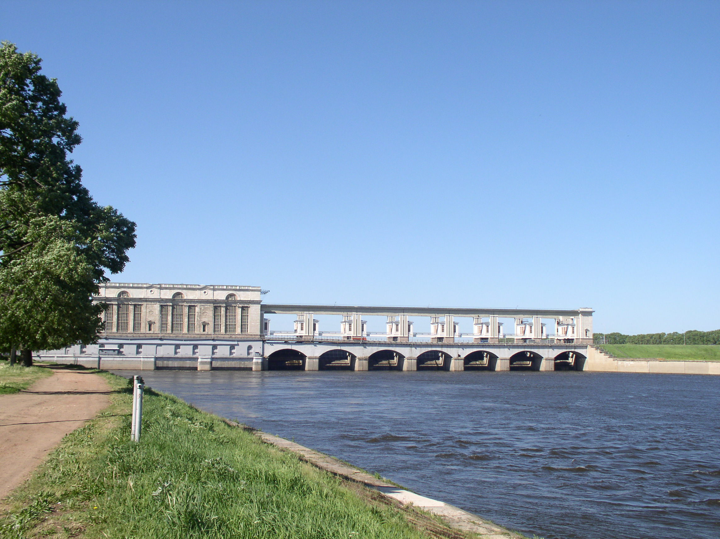 Hydroelectric power plant on Volga in Uglich, Russia